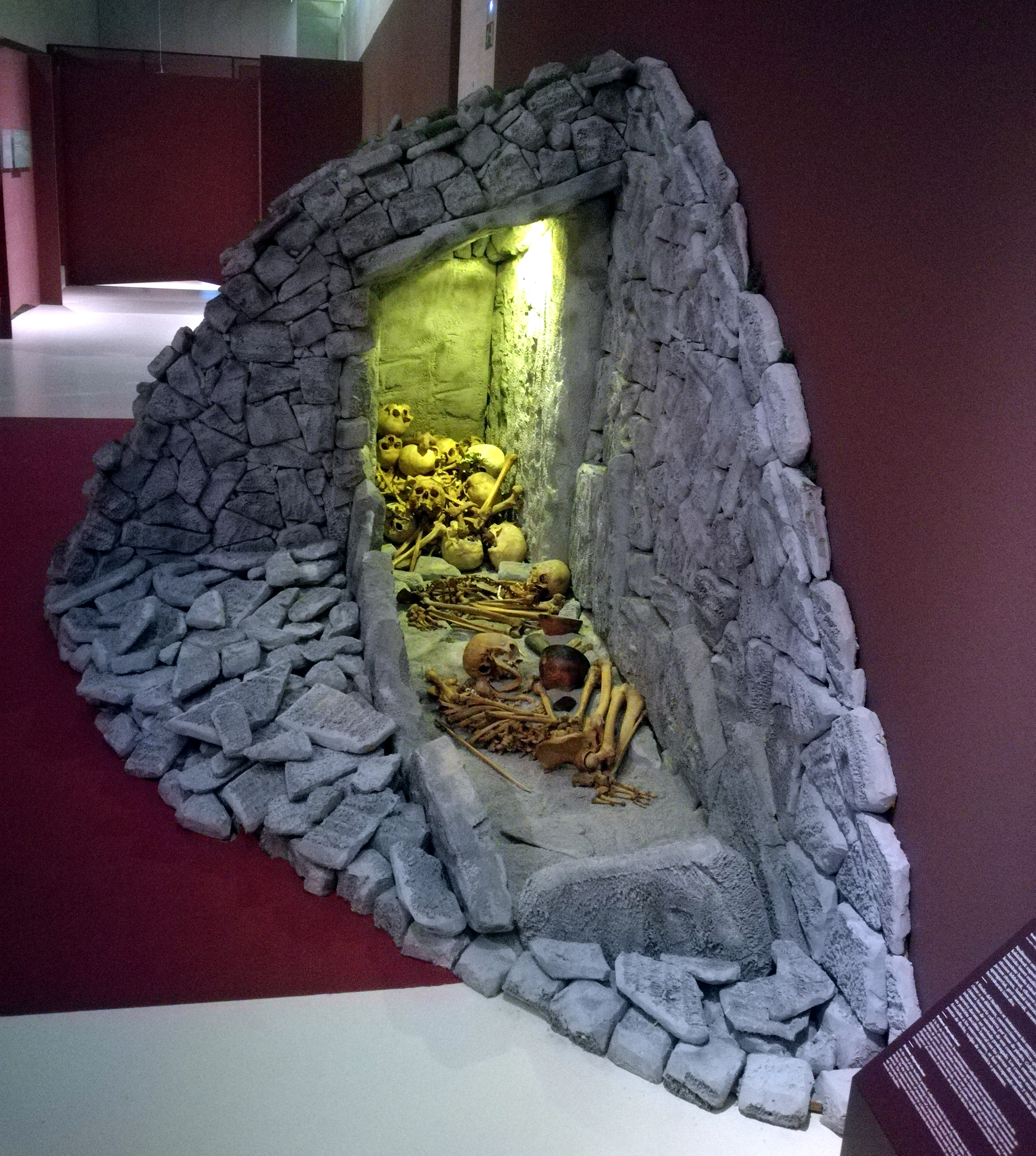 Section of interior of dolmen as constructed for the exposition Heriotza in San Telmo Museum (San Sebastian) on 2019.